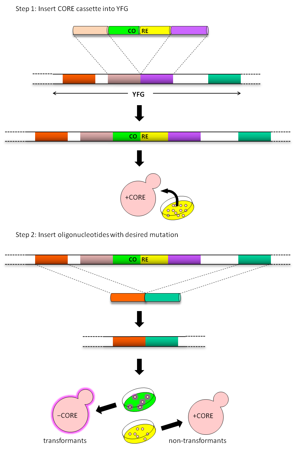 Overview of the Delitto Perfetto method for gene deletions